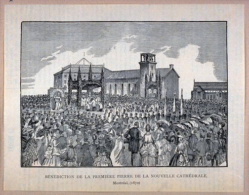 An illustration of the benediction of the first stone during construction of the Mary Queen of the World Cathedral in Montreal.